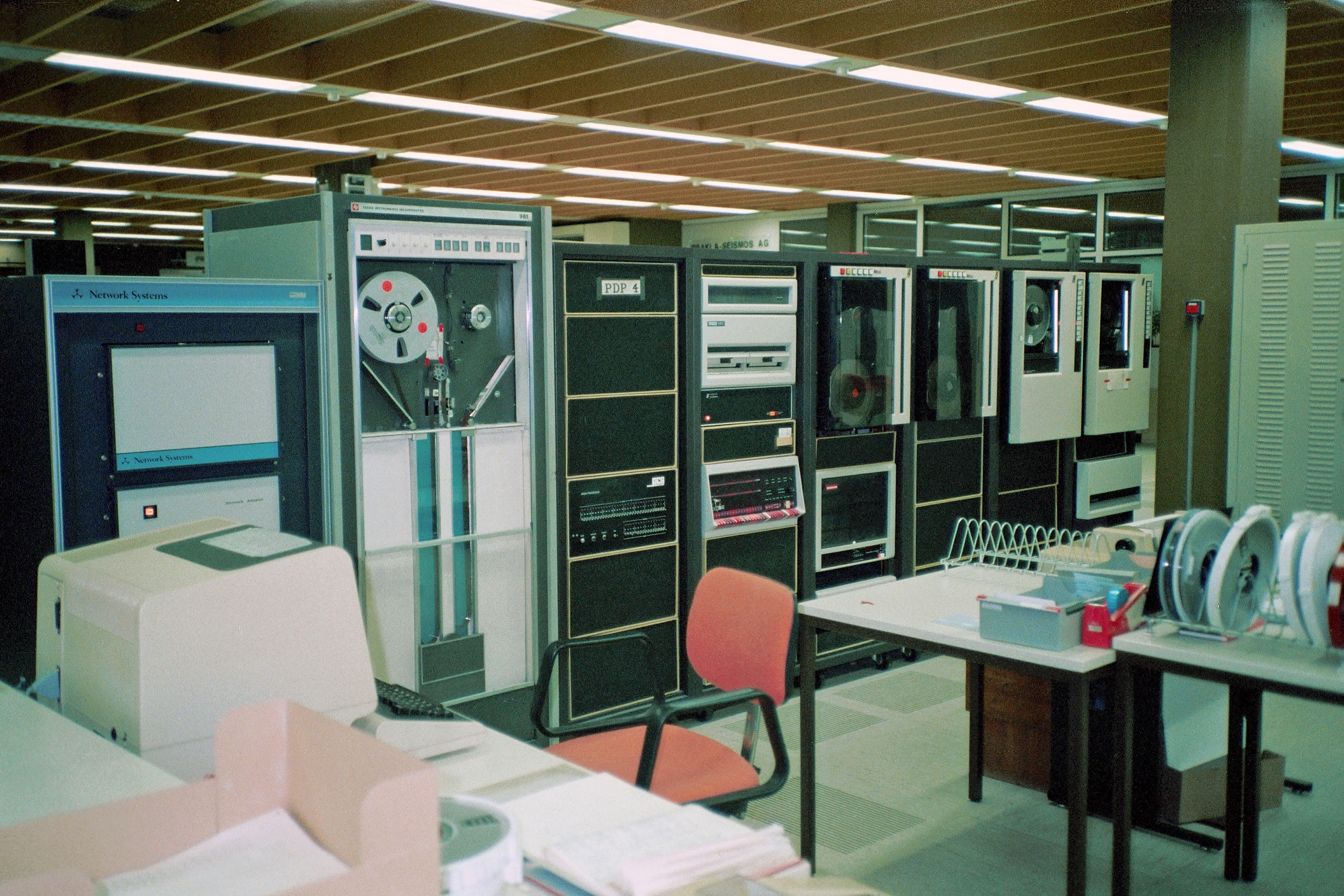 Data processing center of Prakla-Seismos (PDP area)